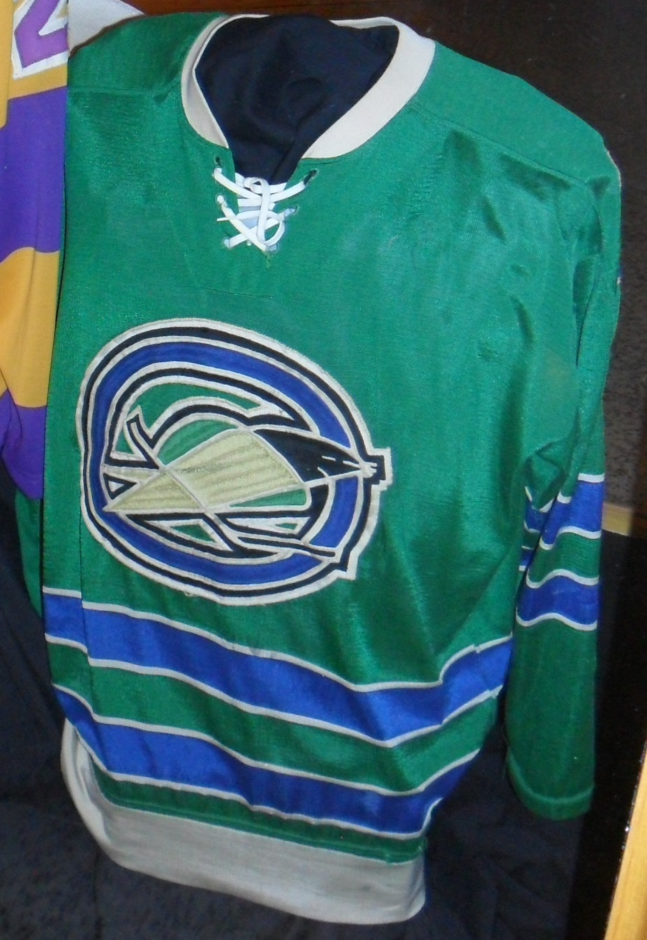 Jersey worn by defunct NHL Oakland Seals hockey team. On display at International Hockey Hall of Fame